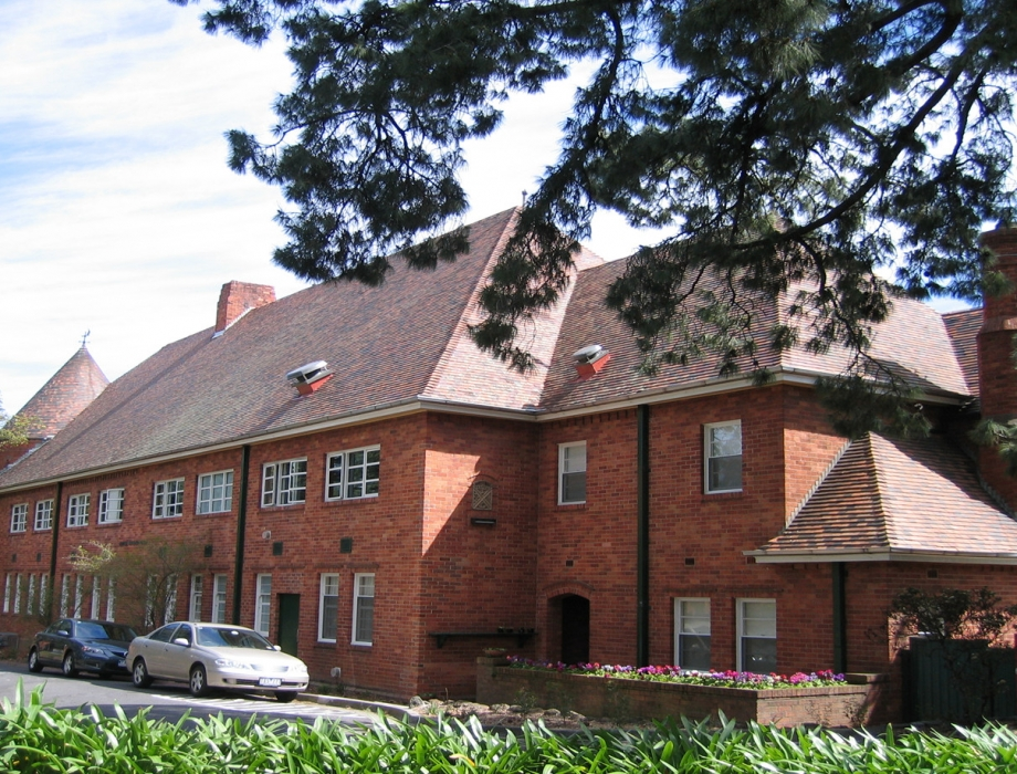 Arthur Robinson House, one of the three boarding Houses at Scotch College, Melbourne